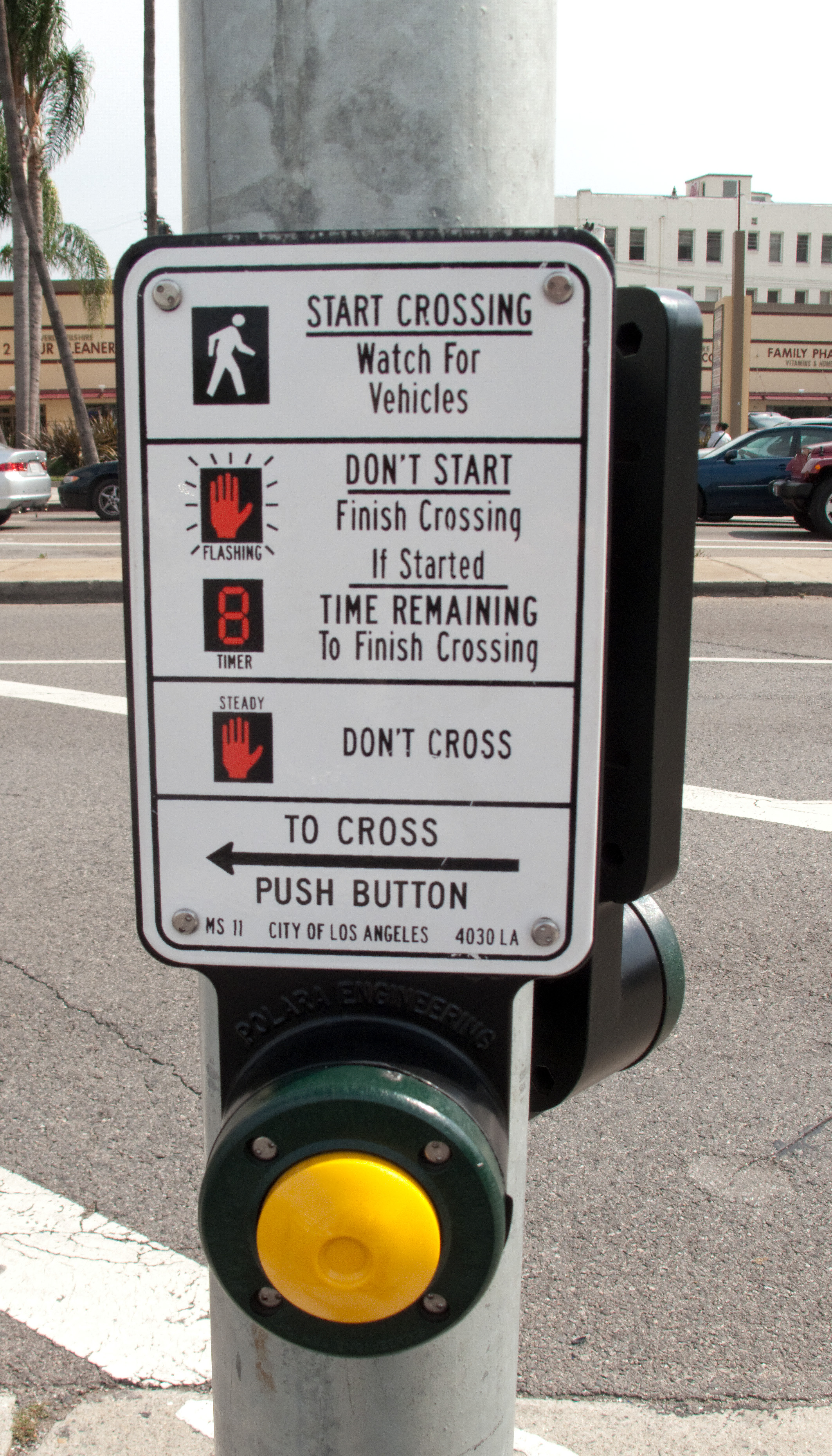 Pedestrian signal on Wilshire Boulevard in Los Angeles, California.